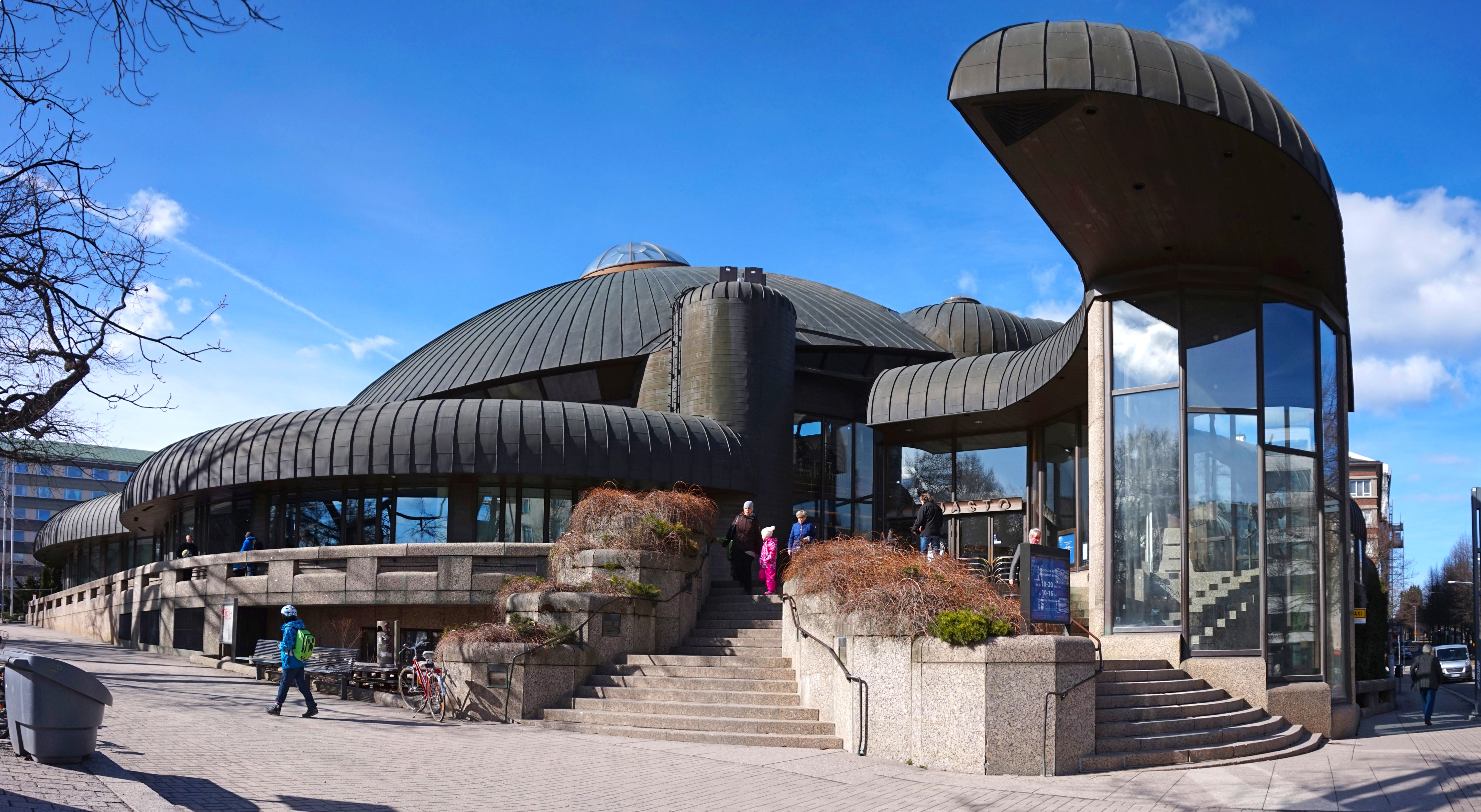 Tampere, Finland.This photograph was taken with a Sony ILCE-5000